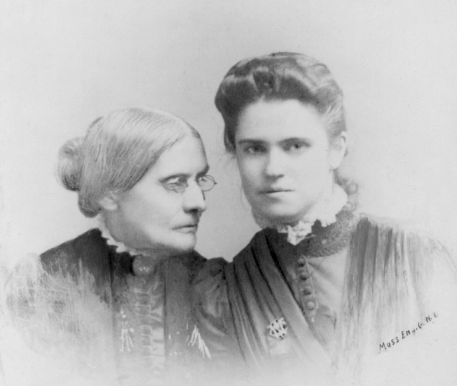 Rachel Foster Avery (1858–1919), and Susan Brownell Anthony (1820-1906)